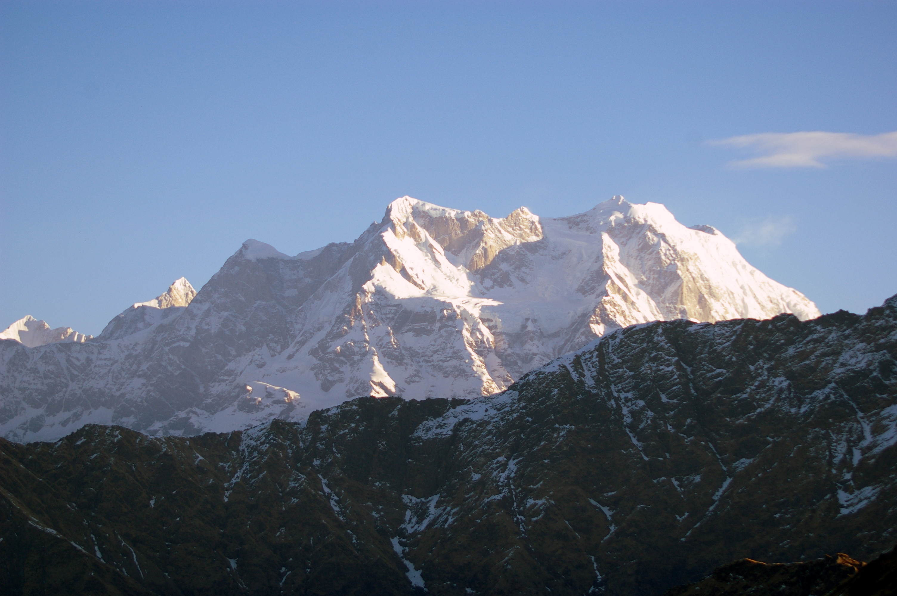 Chaukhamba peaks as seen from Tungnath